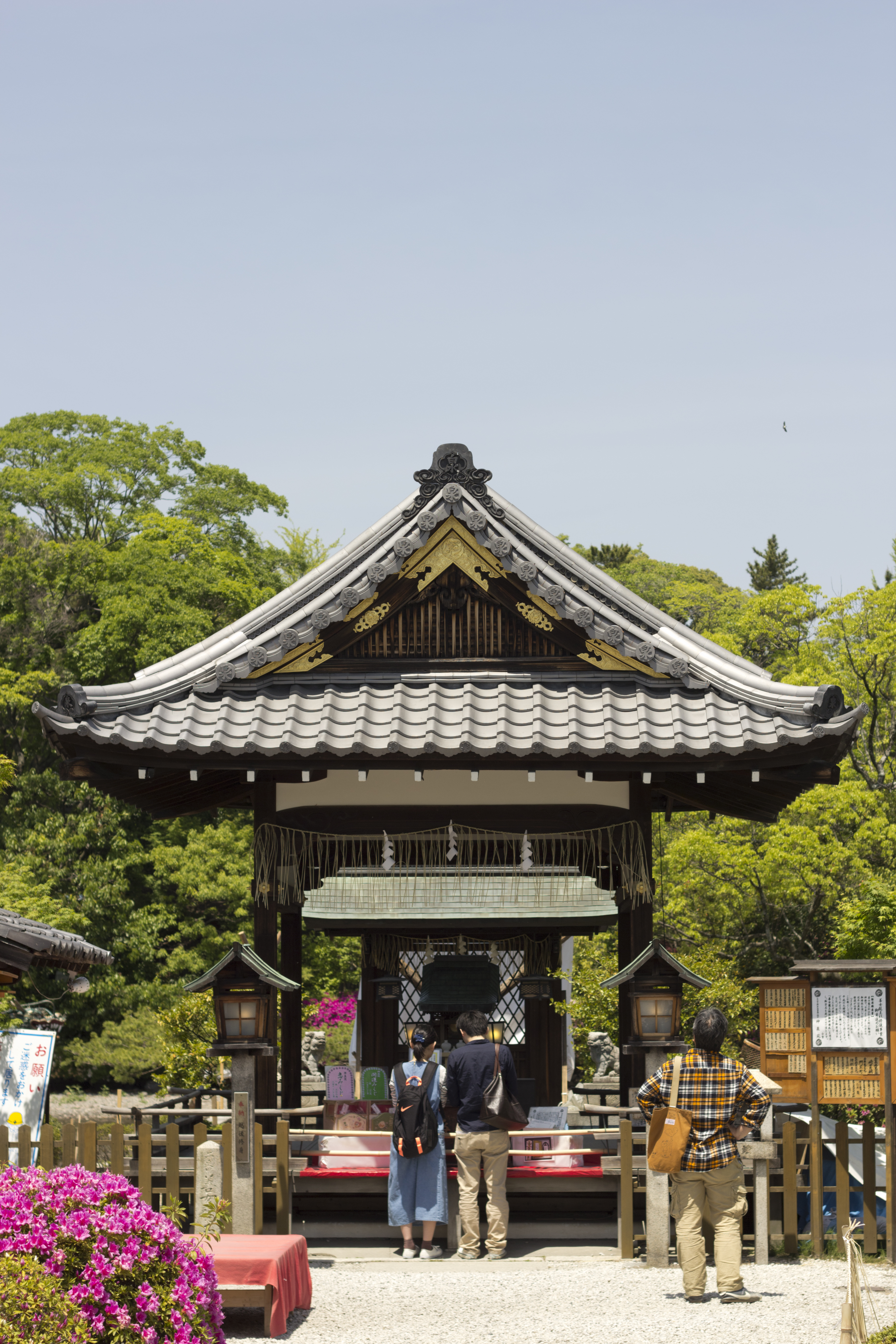 Shinsenen (神泉苑) in Kyoto, south of Nijo Castle.